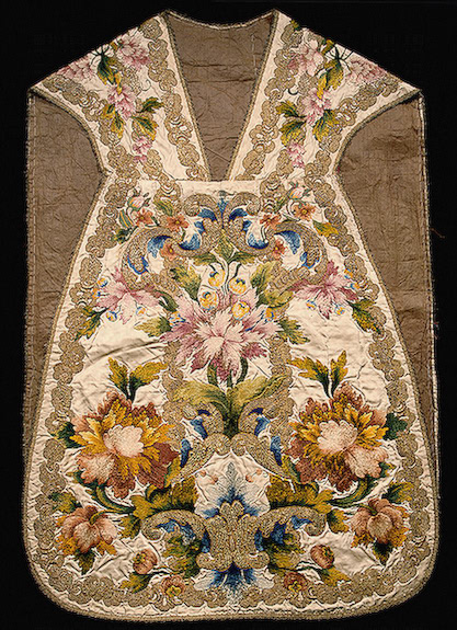 Fiddleback chasuble Roman style